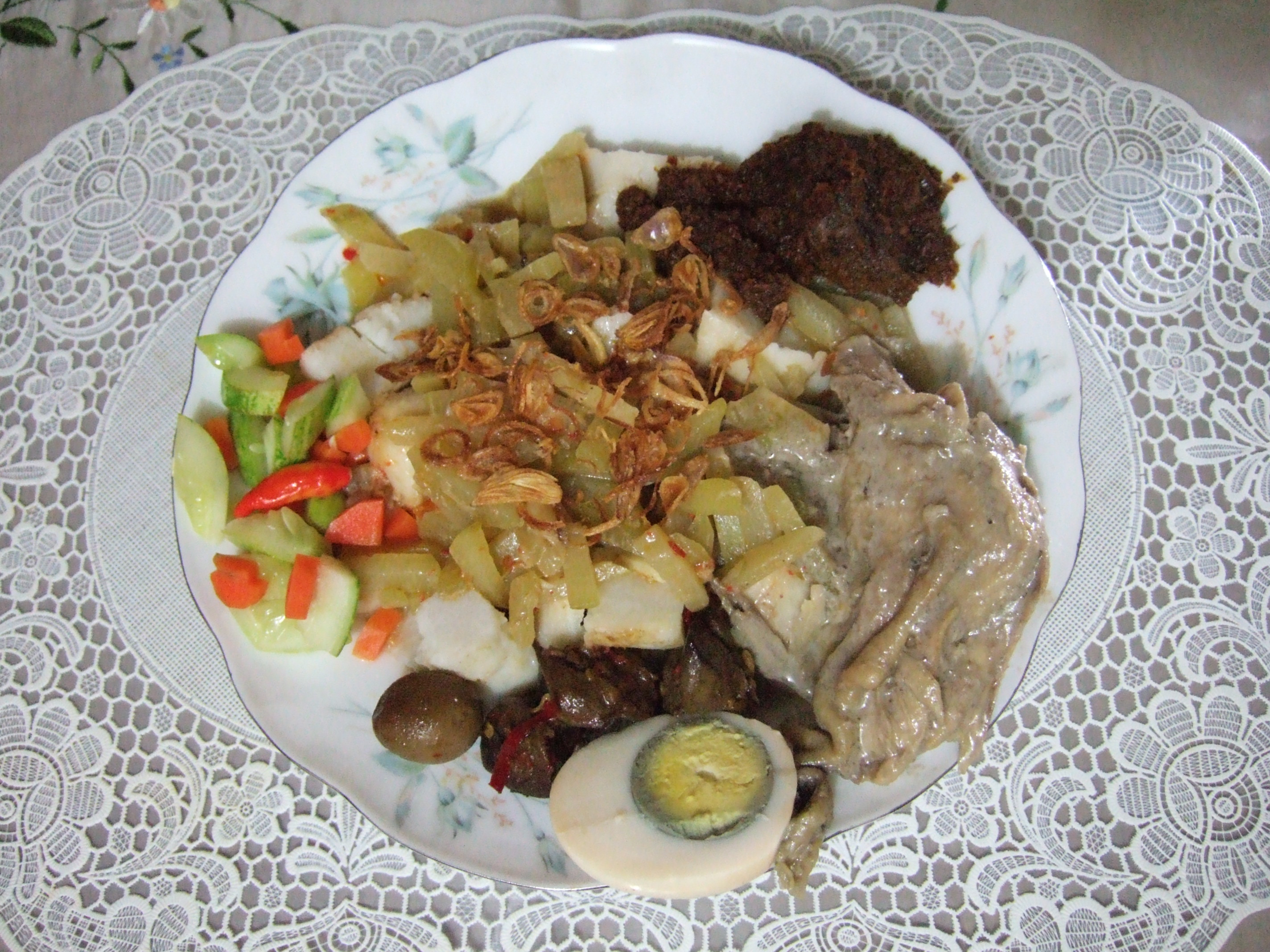 Ketupat, Indonesian rice cake with several toppings. Sambal goreng labu siam, rendang, opor ayam, telur pindang, sambal goreng hati, and acar ketimun